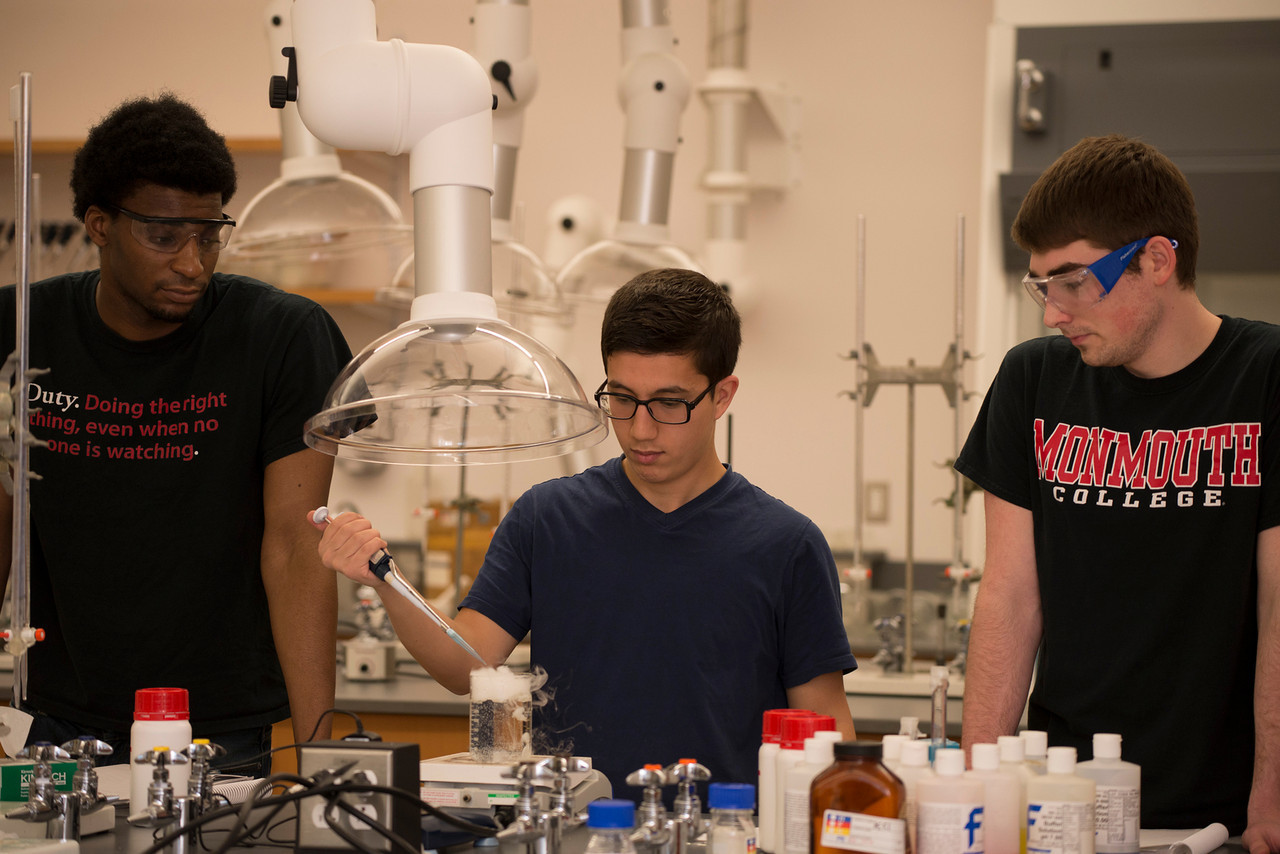 3 men in Monmouth College Chemistry Lab